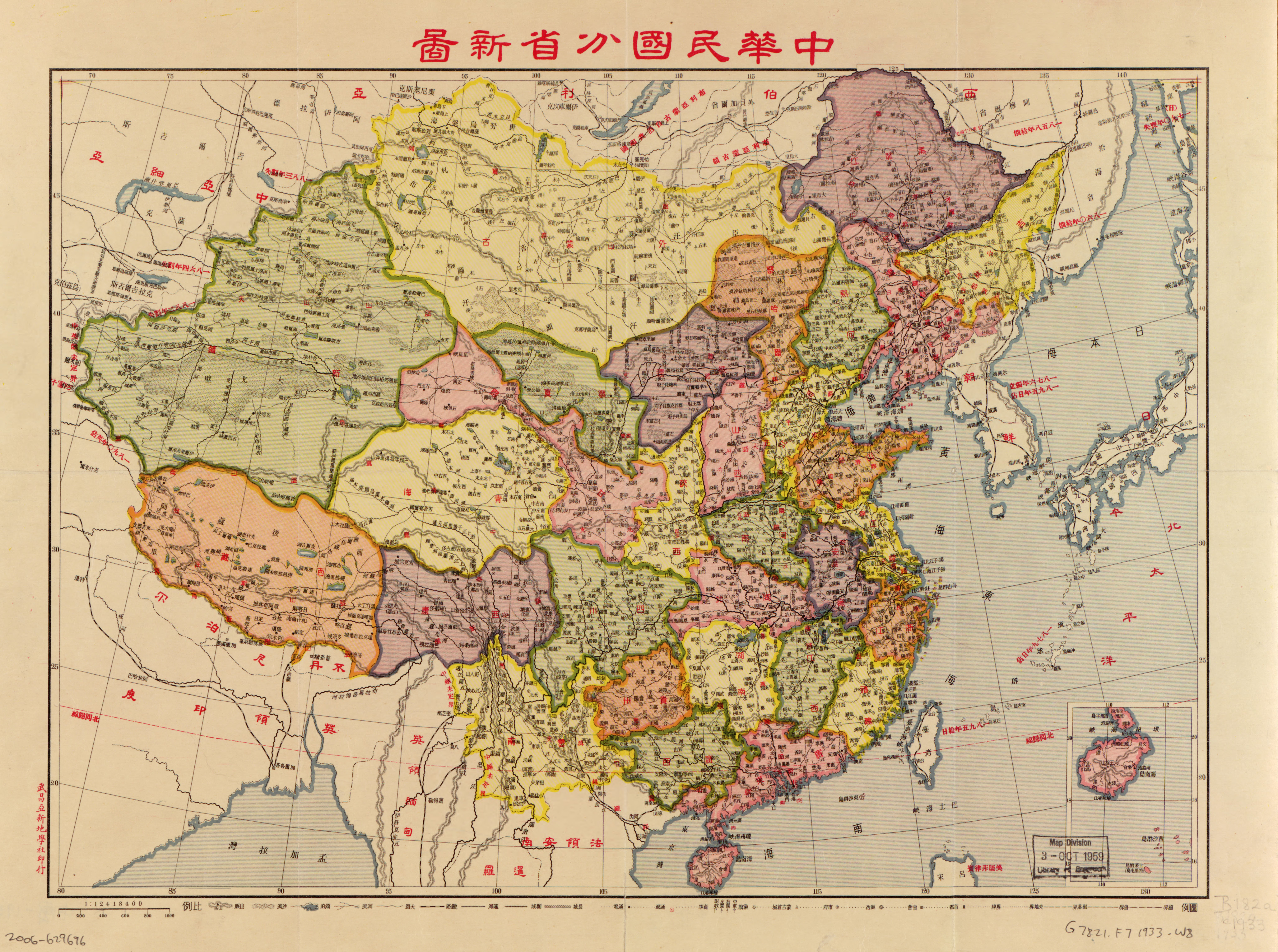 Zhonghua min guo fen sheng xin tu. (New Map of Republic of China divided by provinces). Relief shown by hachures. Includes inset of Hainan Dao (Hainan Island). Scale 1:12,413,400 (E 700--E 1400/N 500--N 200).